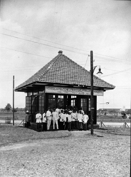 Group portrait in front of the pavilion of the 'Nederlandsche Seintoestellenfabriek' at the Trade Fair in Bandung